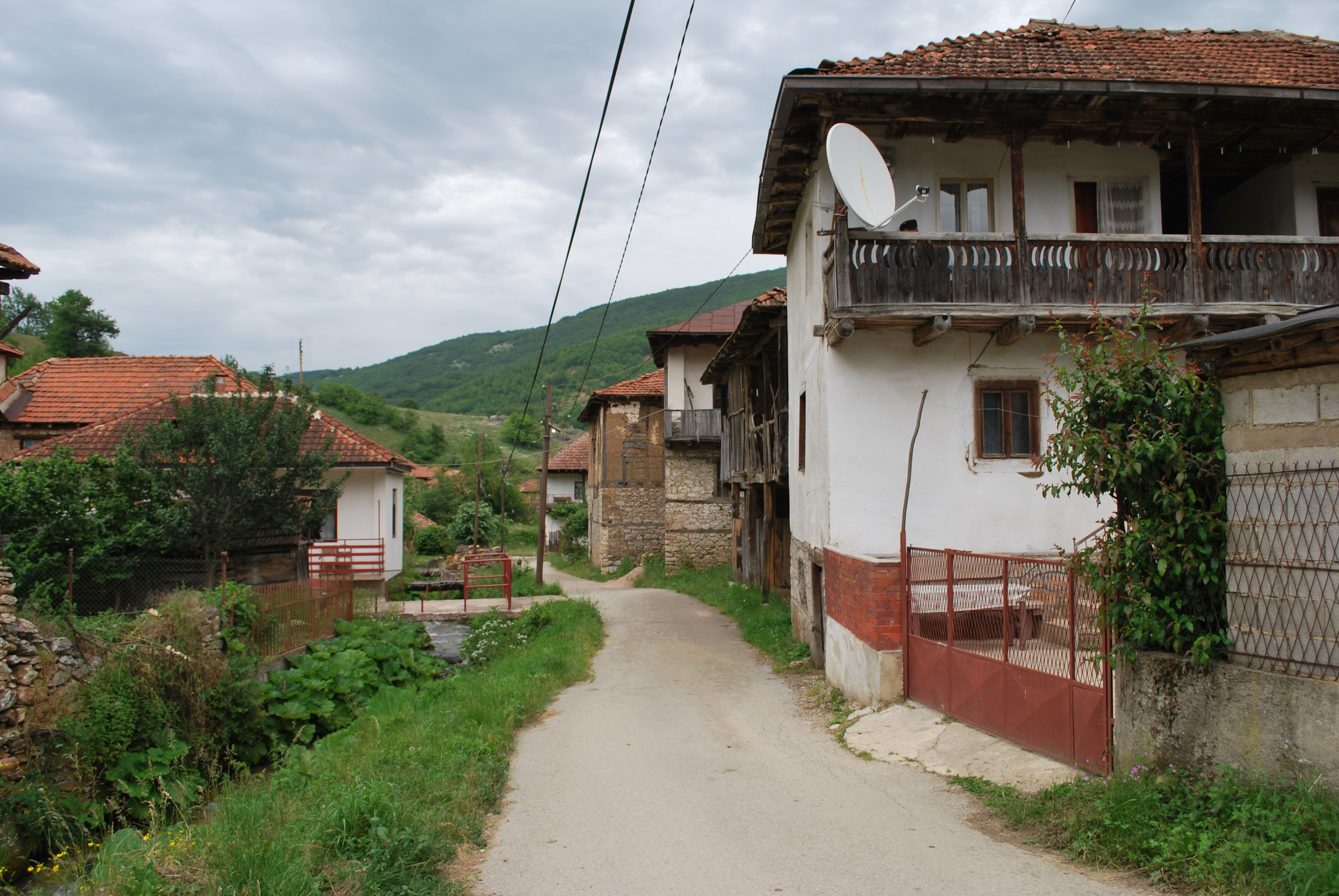 Belica near Kičevo, Macedonia